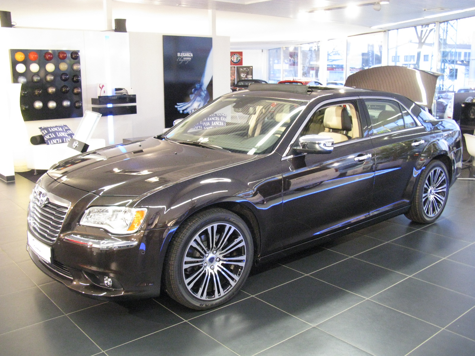 Lancia Thema